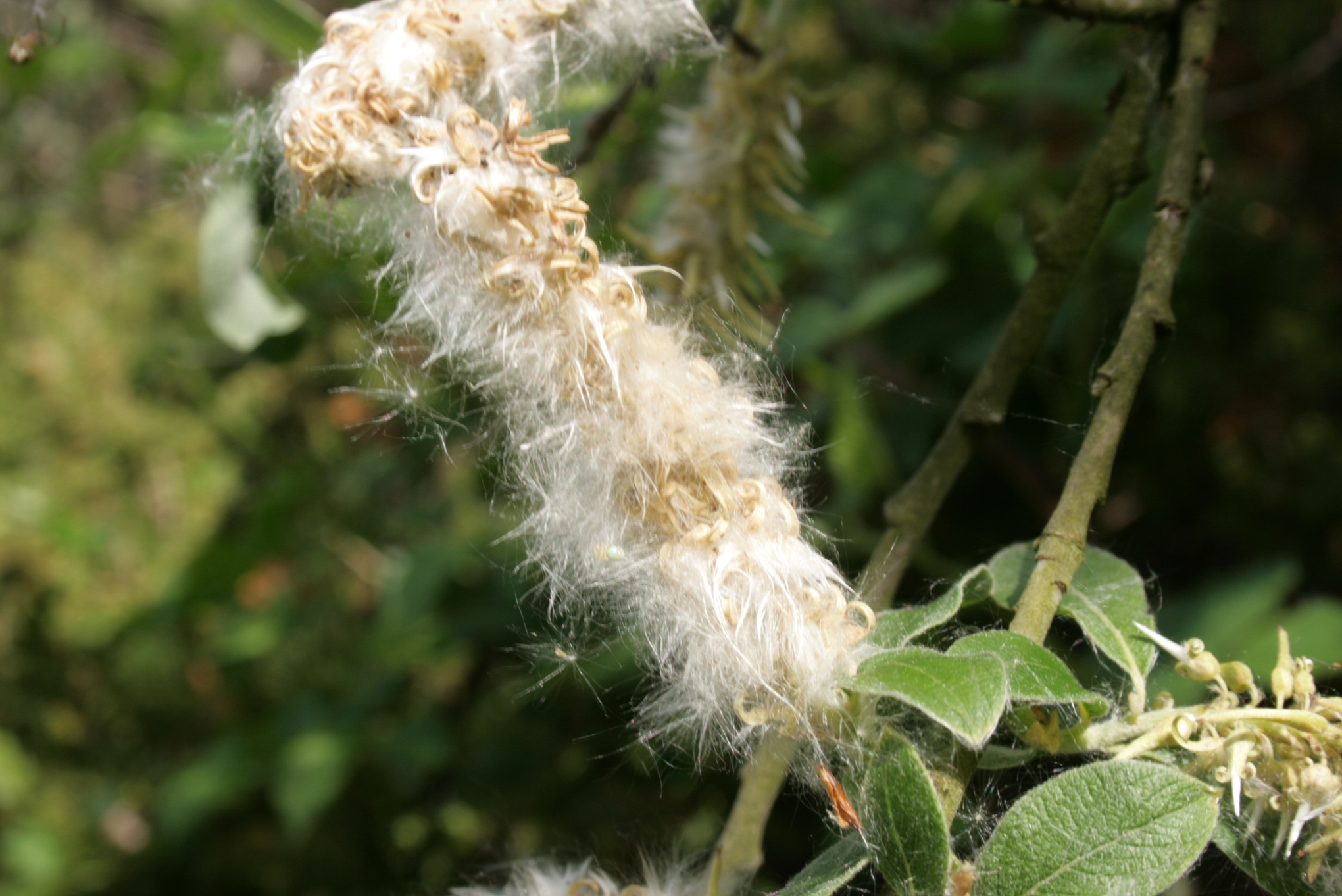 Salix cinerea: Ripe fruitsDansk: Grå-Pil (Salix cinerea): Modne frugter